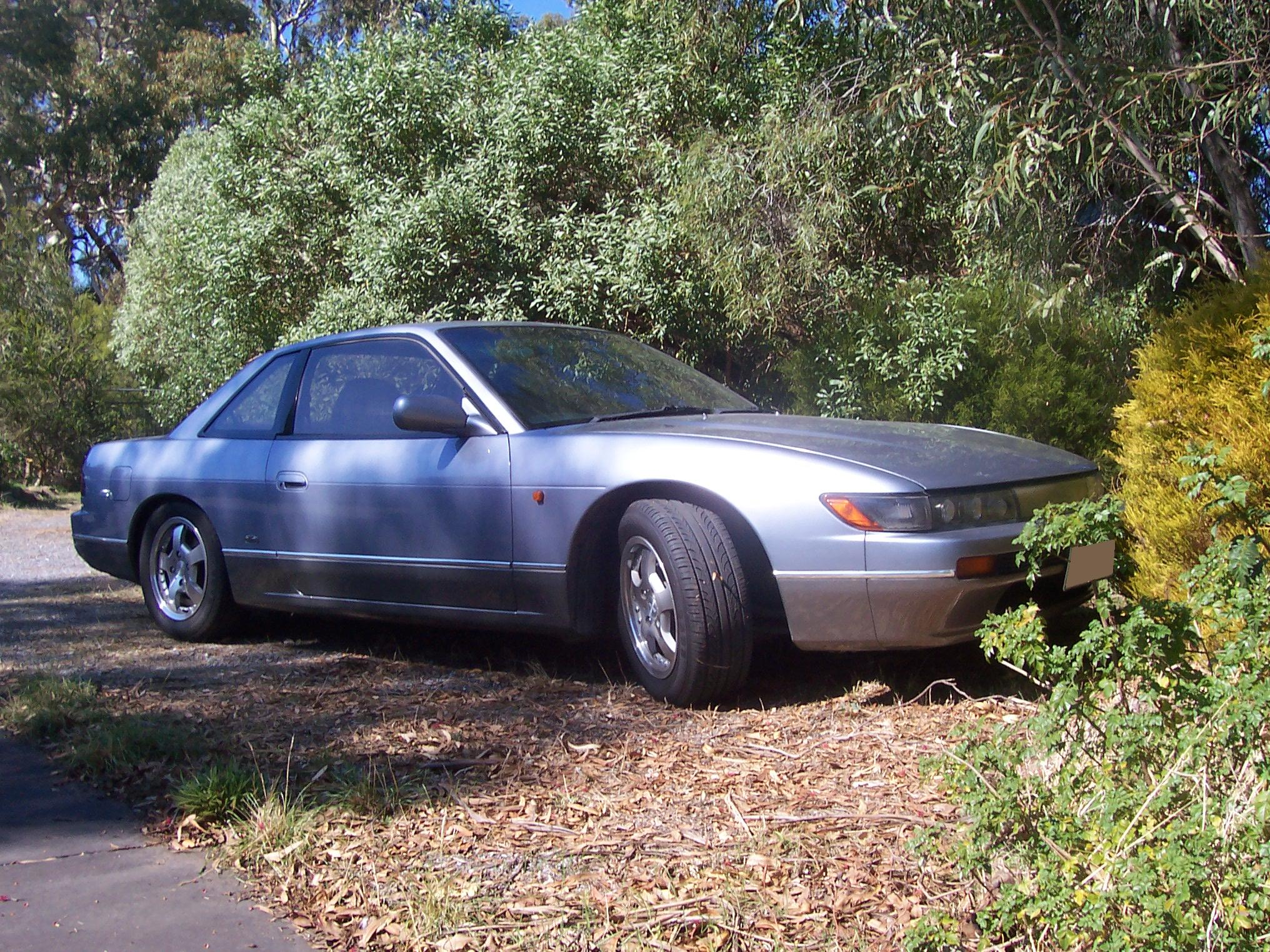 1992 Nissan Silvia S13 series II Q's with SR20DE motor & Speedy rims in Adelaide, SA Australia